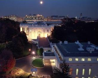 Today's expanded West Wing is very similar to the 1902 "temporary" executive office building. After 100 years, the West Wing has transformed the grounds of the White House and the presidency.